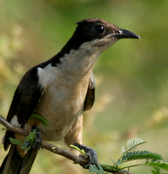 Pied Cuckoo, Pied Crested Cuckoo, or Jacobin Cuckoo Clamator jacobinus in Kolleru, Andhra Pradesh, India.